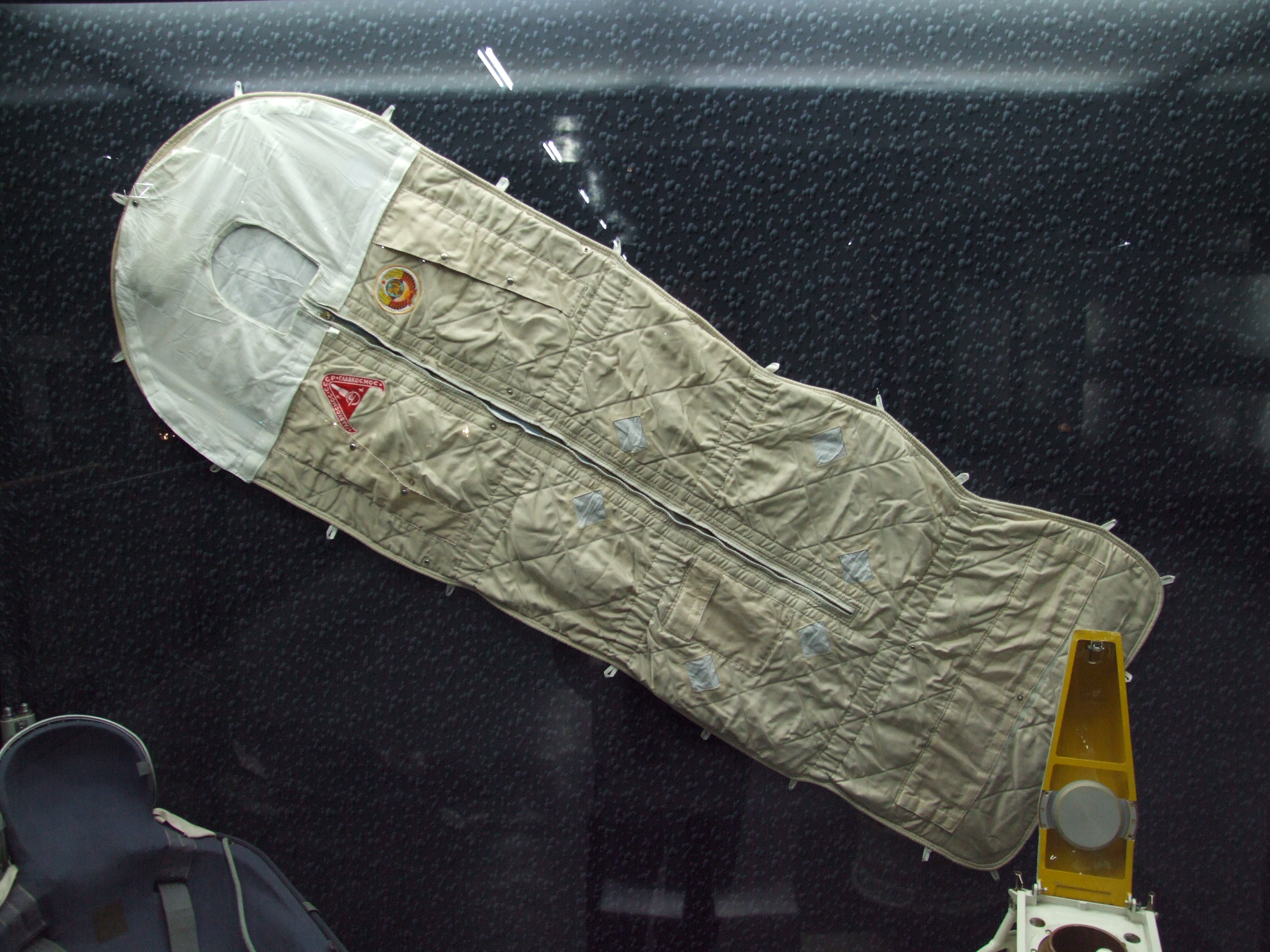 Russian sleeping bag used in space station MIR and international space station ISS, Technik Museum Speyer